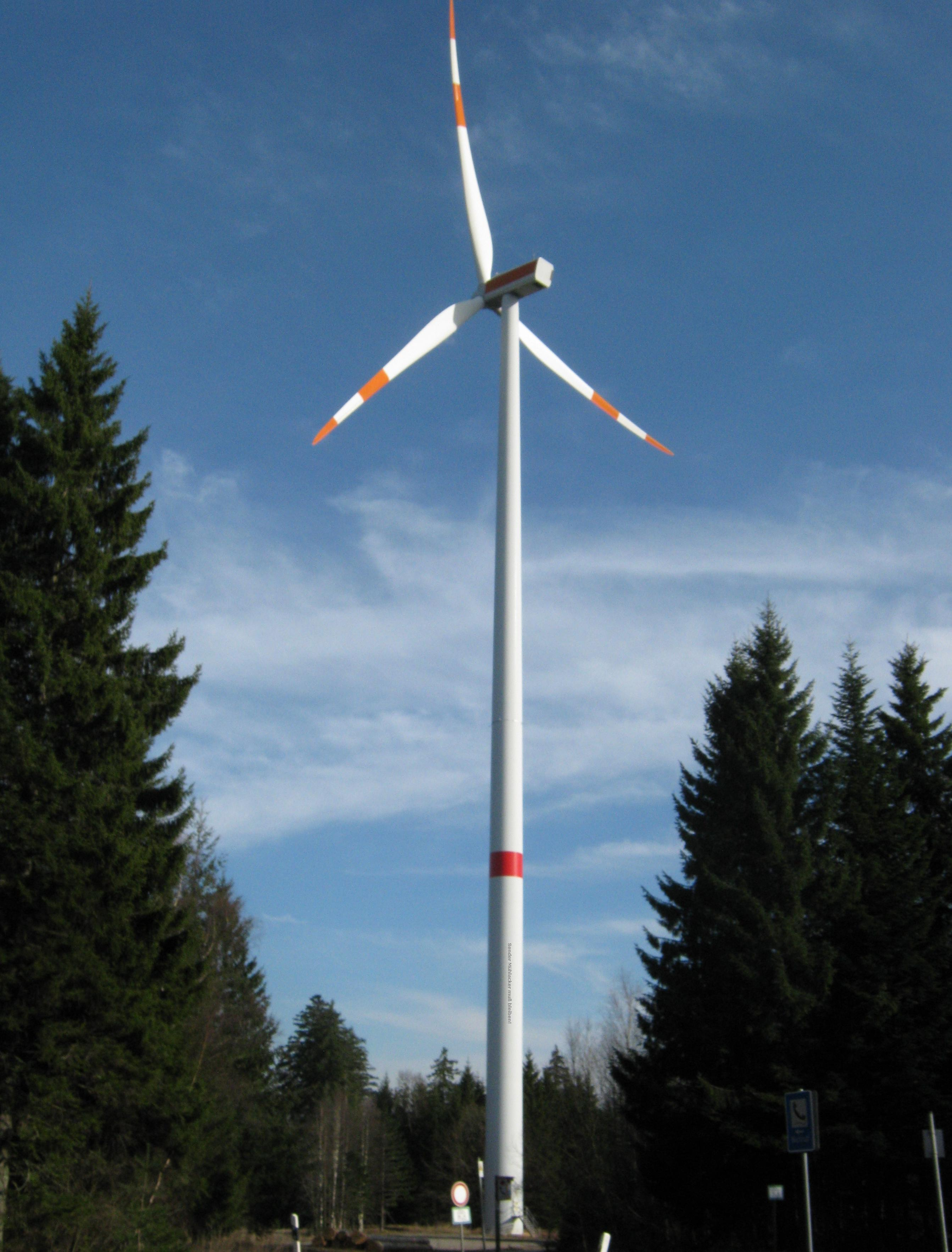 A close view on a Vestas V90 wind turbine of Simmersfeld Wind Park